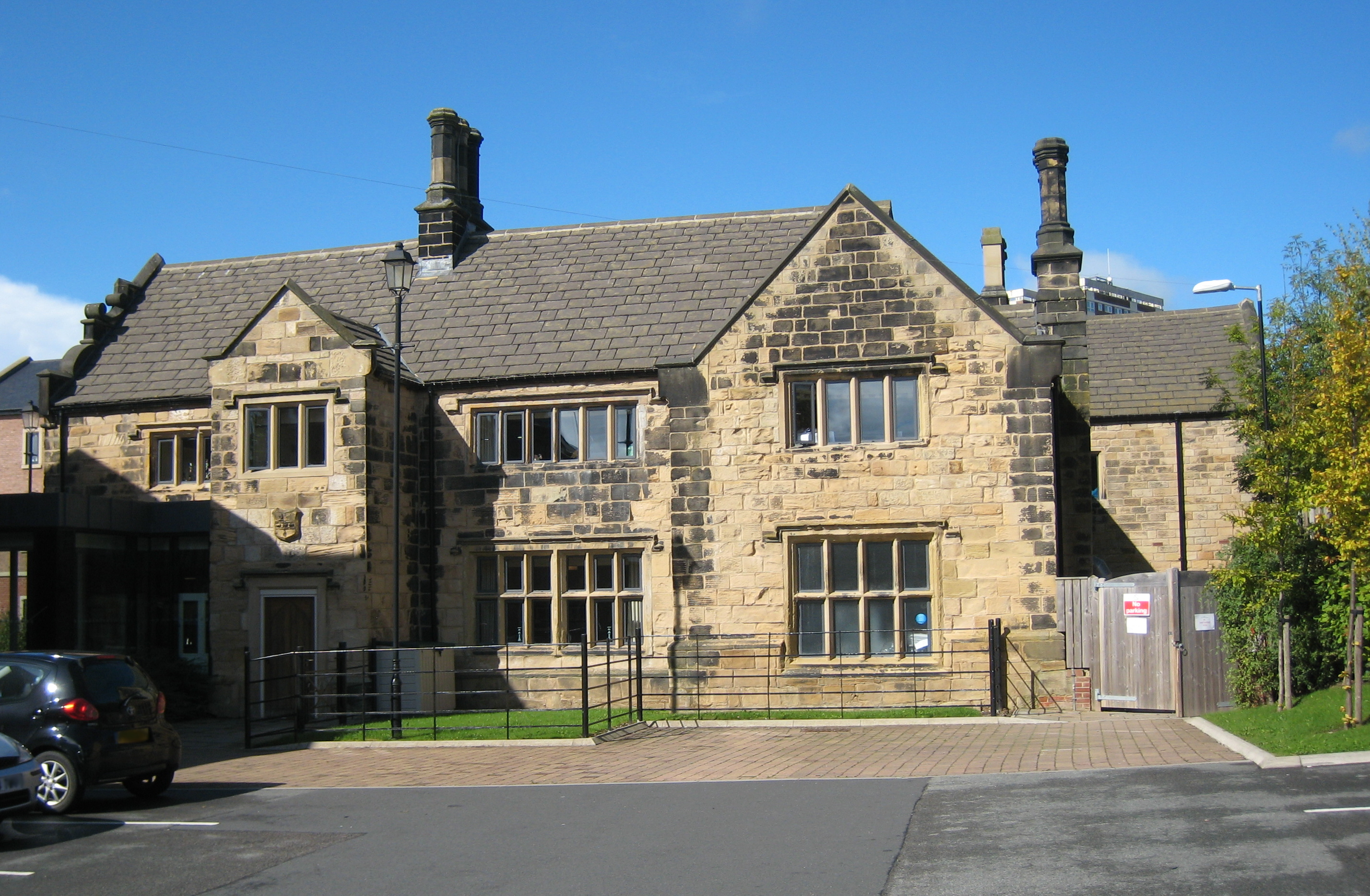 Seacroft Grange. Now part of Seacroft Grange Care Village. Leeds LS14 6JL. Viewed from York Road. 1627 grade II house.